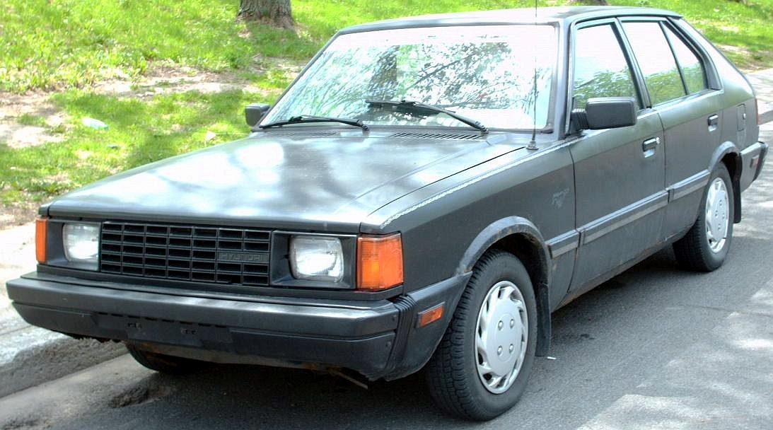 1986-1987 Hyundai Pony photographed in Montreal, Quebec, Canada.